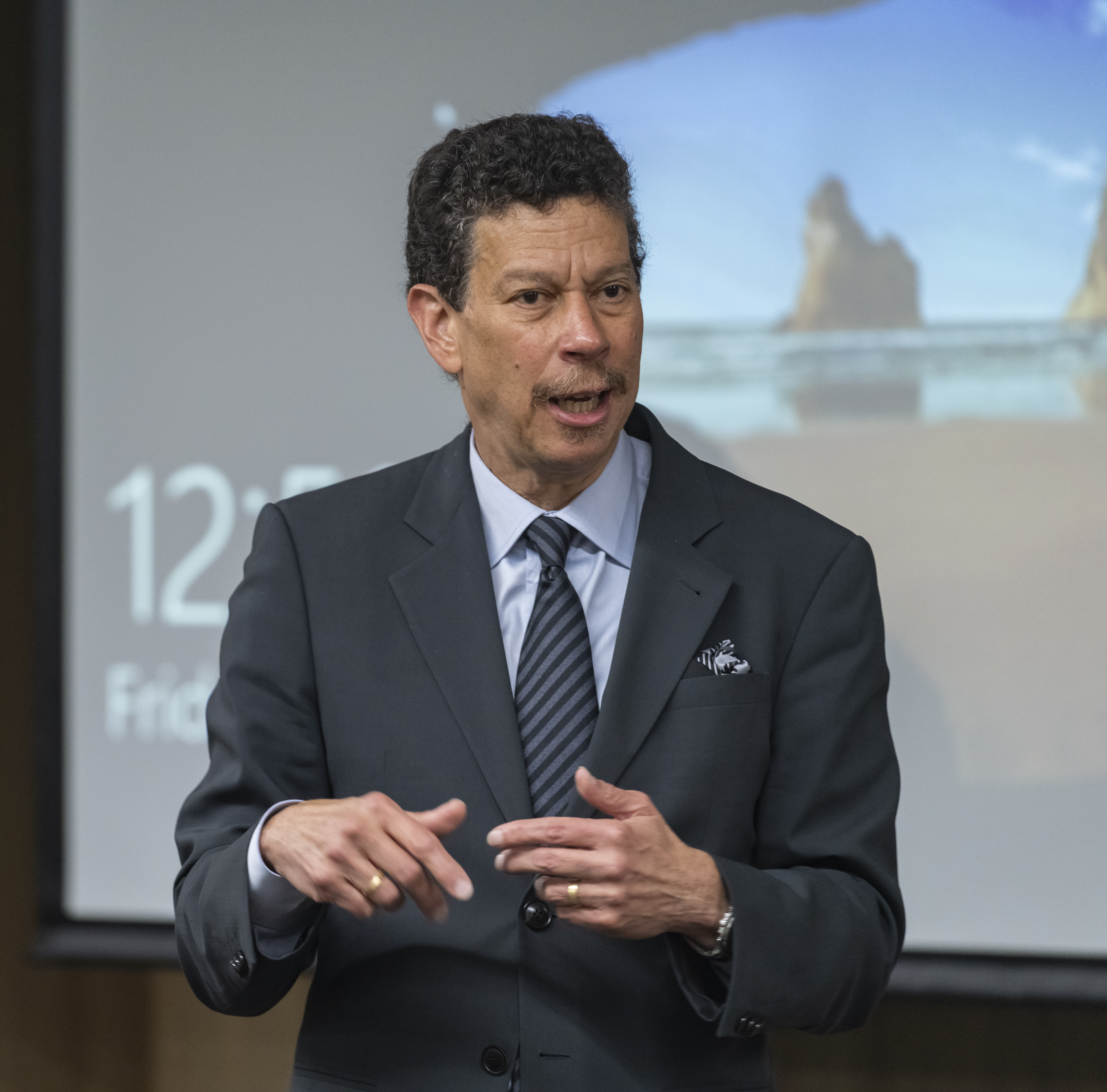 professor david wilkins harvard speaking at singapore management university 2018